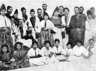 Jews of Fez, Morocco, c. 1900. From the 1901-1906 Jewish Encyclopedia, now in the public domain. Category:Jewish Encyclopedia images